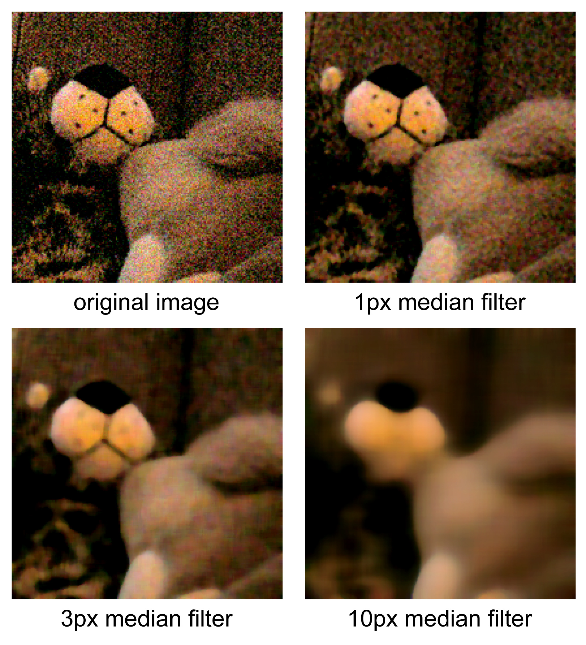 Example of median filters of varying radii applied to the same image, original image from :Image:Testverylong.JPG, with a bit of noise, and median filtering done in Adobe photoshop.